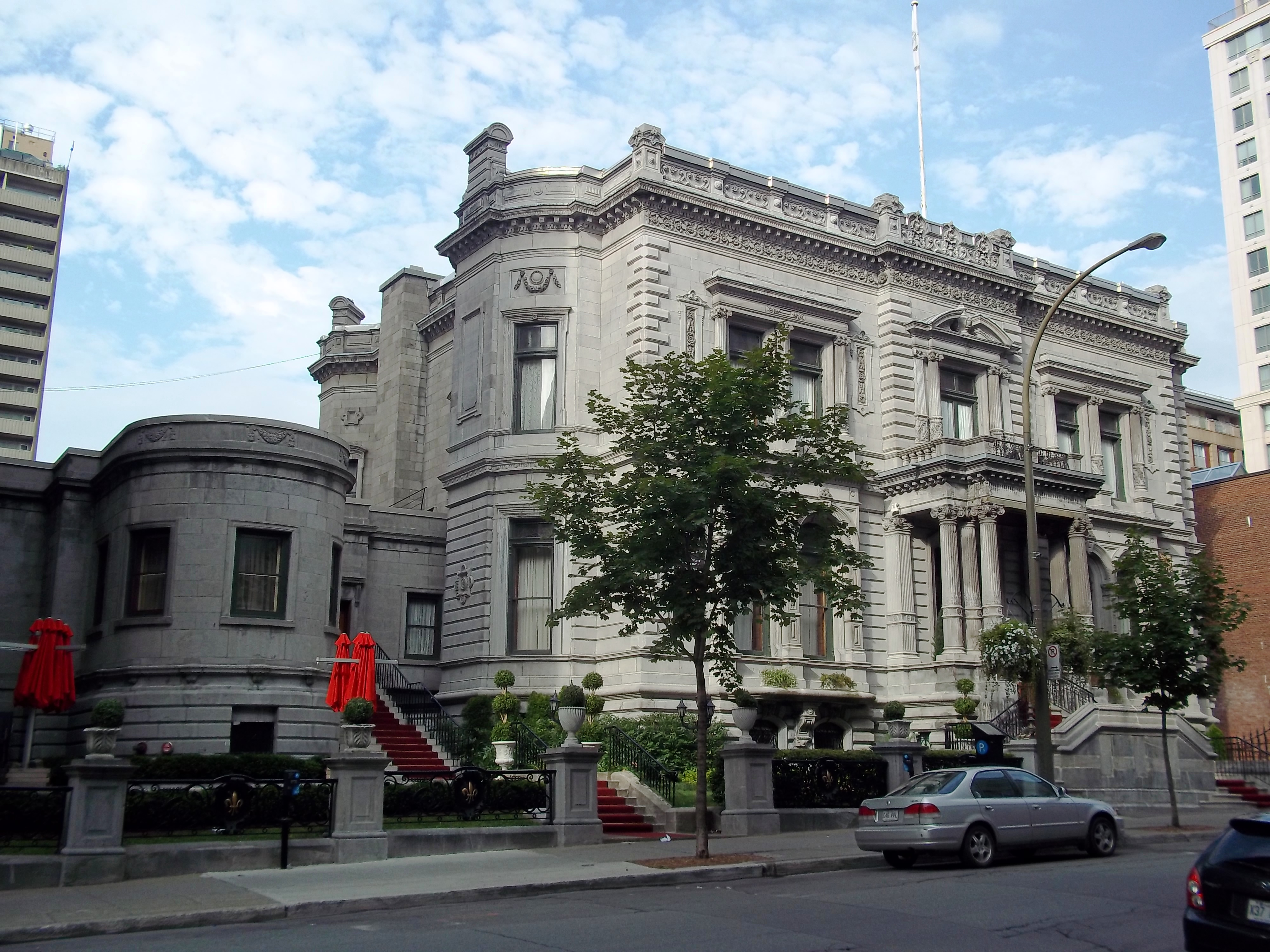 George Stephen House (1883), also known as the Mount Stephen Club Building, 1430–1440 Drummond Street, Montreal, Quebec, Canada.